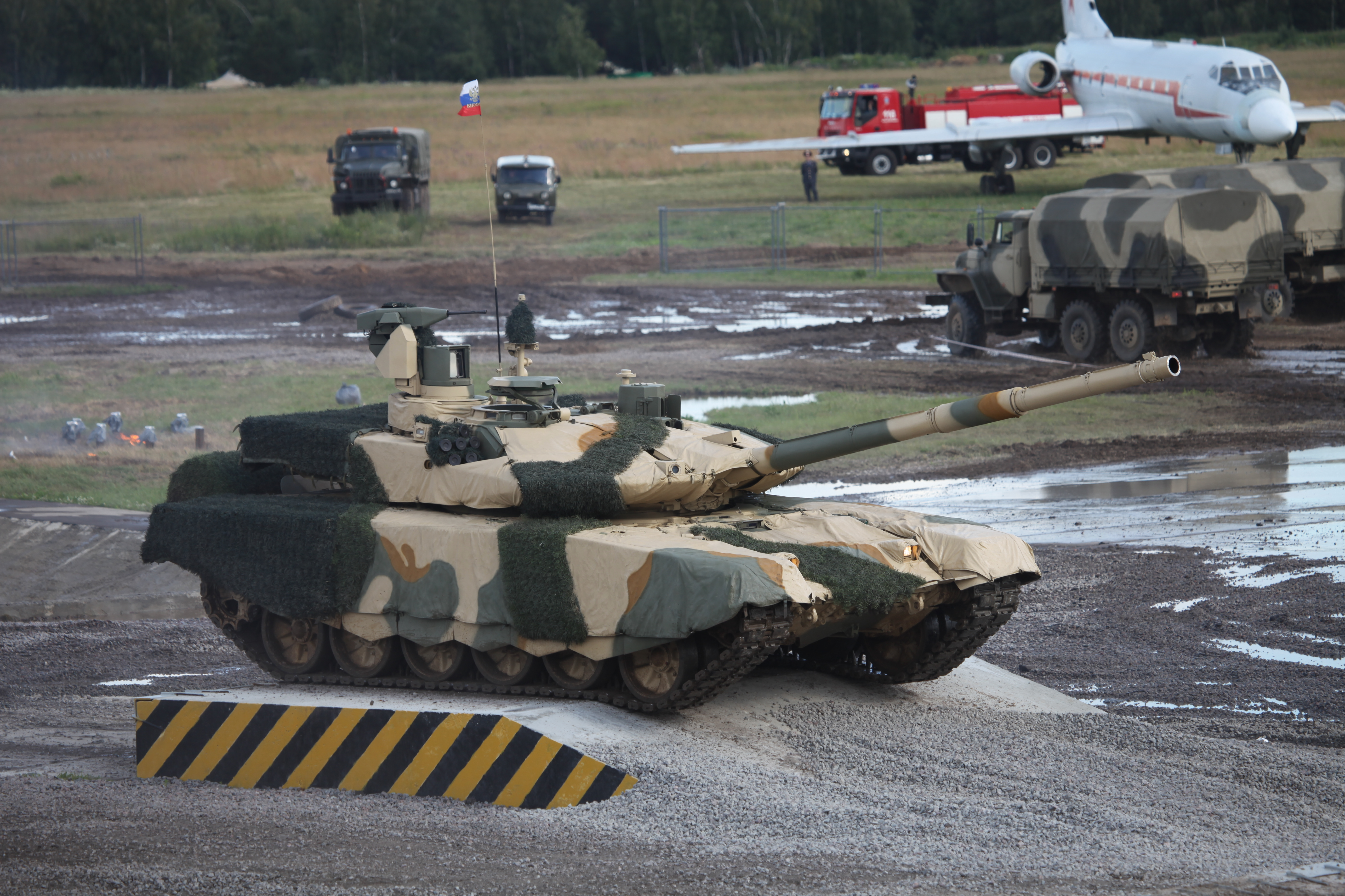 T-90MS main battle tank at Engineering Technologies 2012 international forum